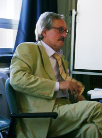 Italian medievalist historian Renato Bordone portrayed in the History Department of Turin University, year 2007